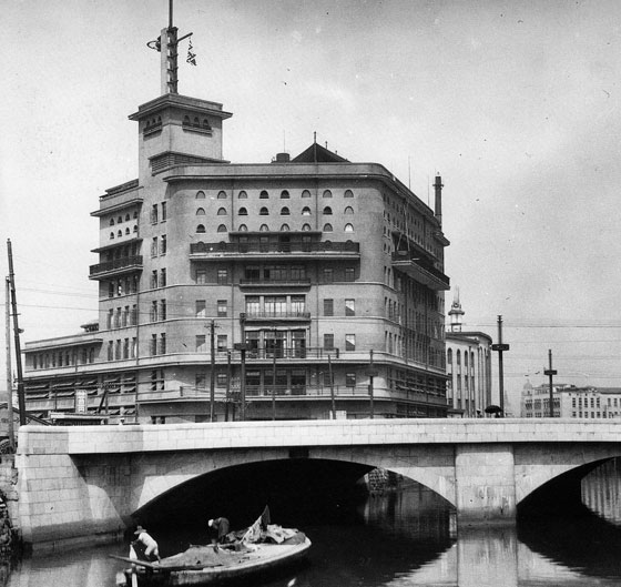 Ishimoto Kikuji: Asahi Shinbum offices, 1927, Tokyo